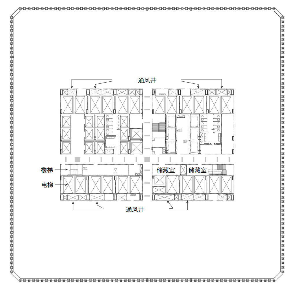 Typical WTC tower architectural floor plan.